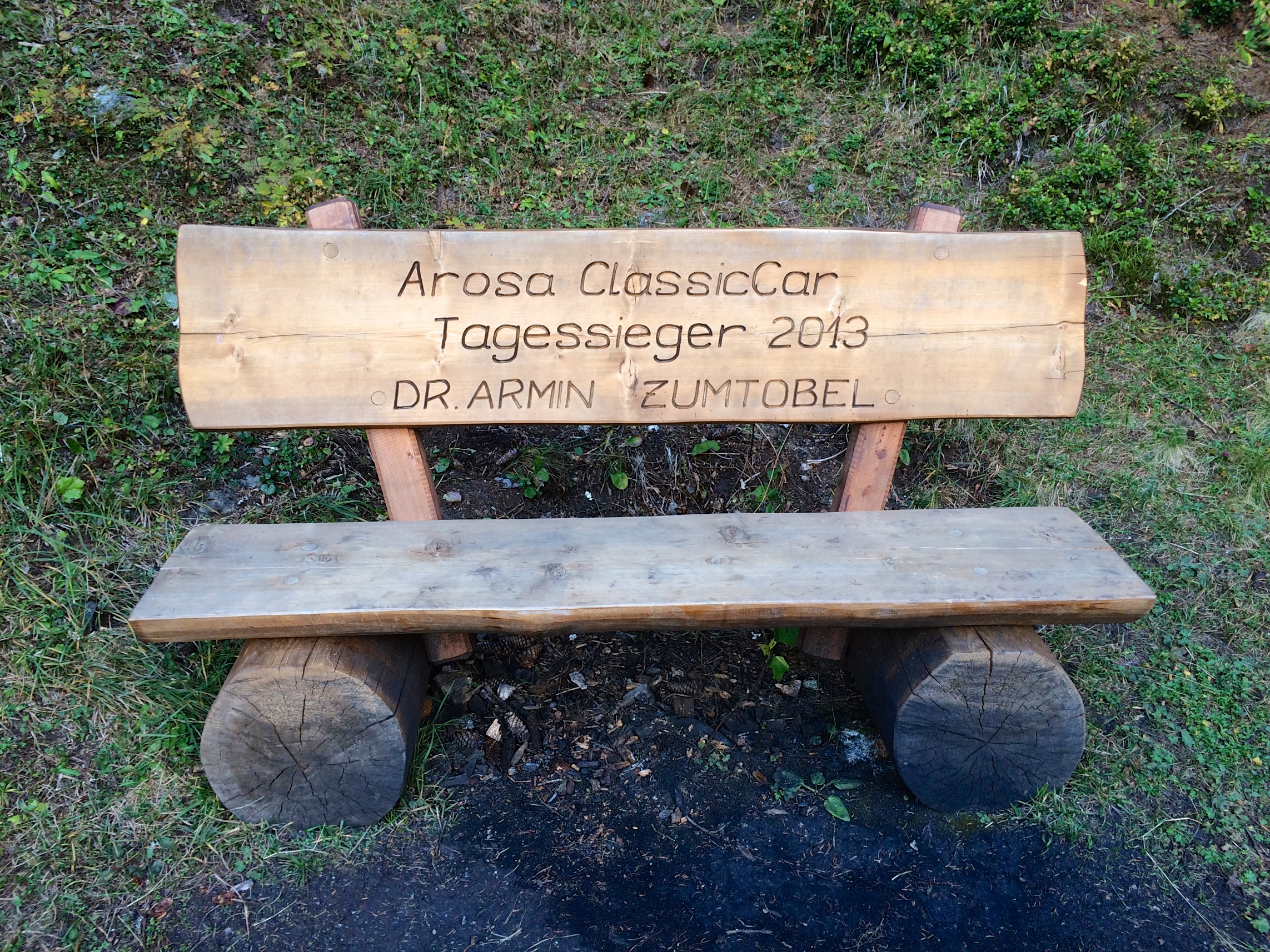 Wooden bench as prize of Arosa ClassicCar race (lake Grünsee Arosa, Switzerland)